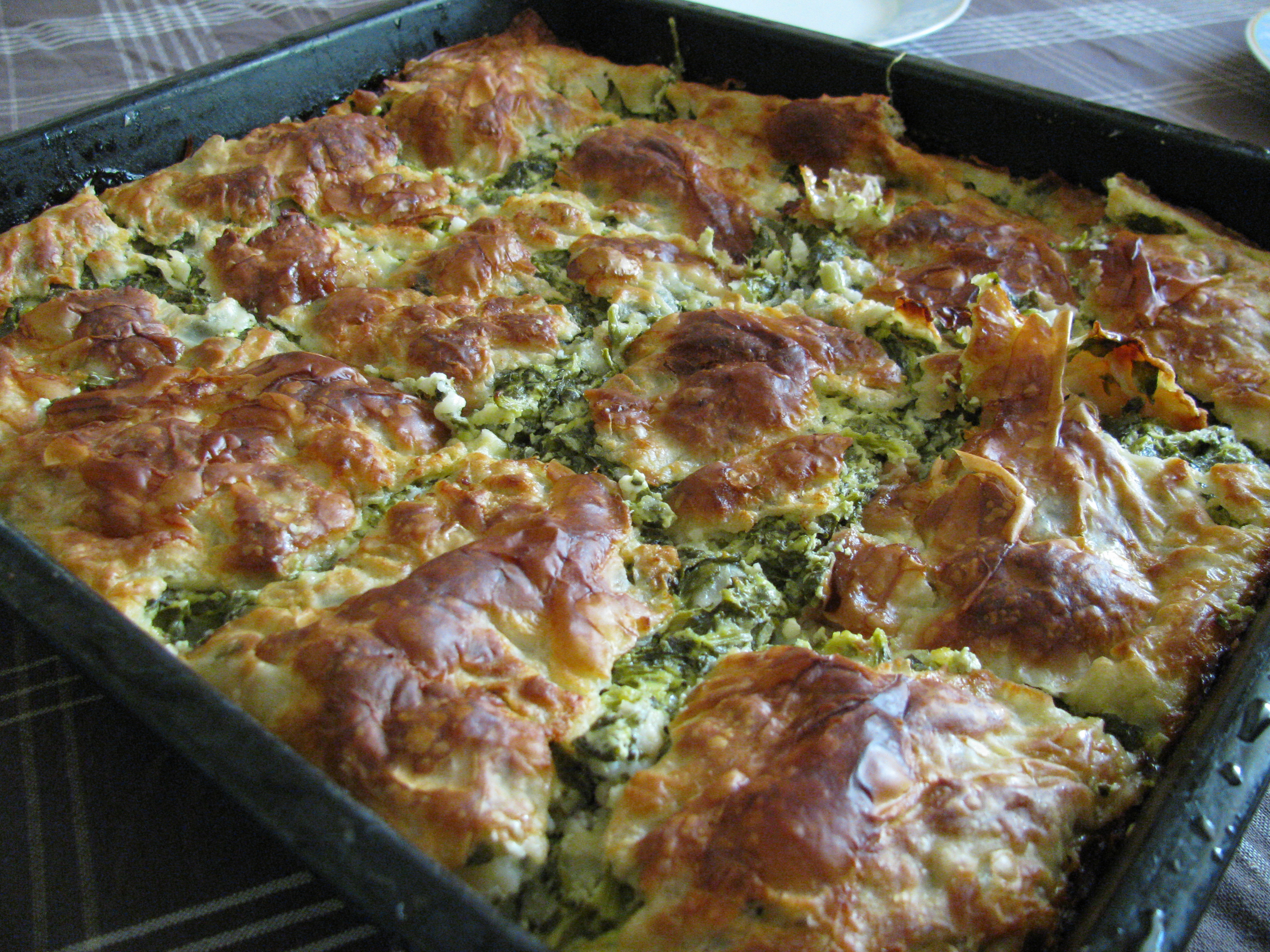 Zeljanica (Burek)